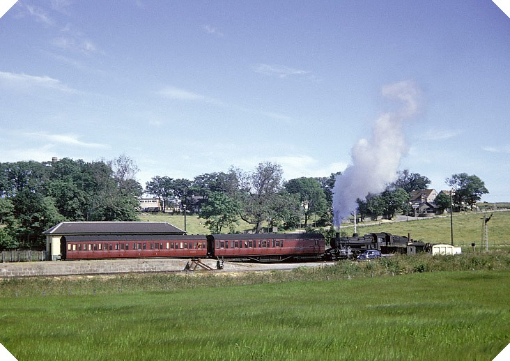 Steam train at Ladysbridge, Scotland in June 1964